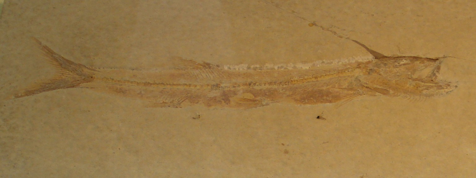 fossil of eichstaettia